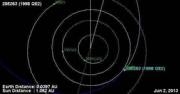 2 June 2013 (~12pm/et/usa) JPL Small-Body Database Browser - Orbit Diagram Asteroid - 285263 (1998 QE2) Near-Earth asteroids